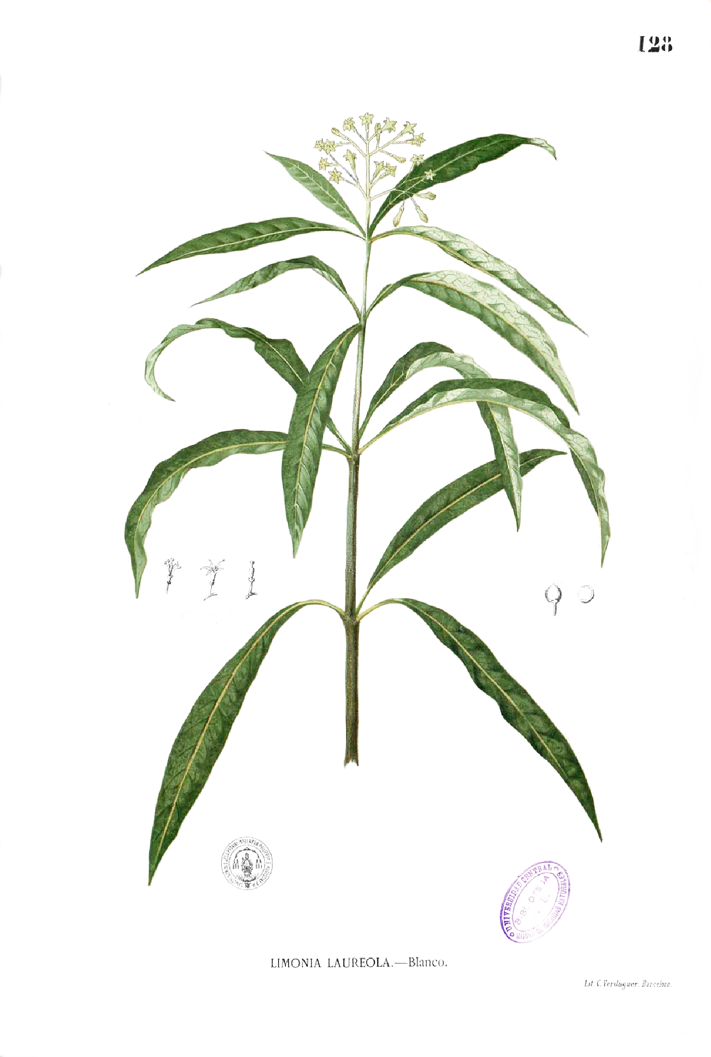 Plate from book